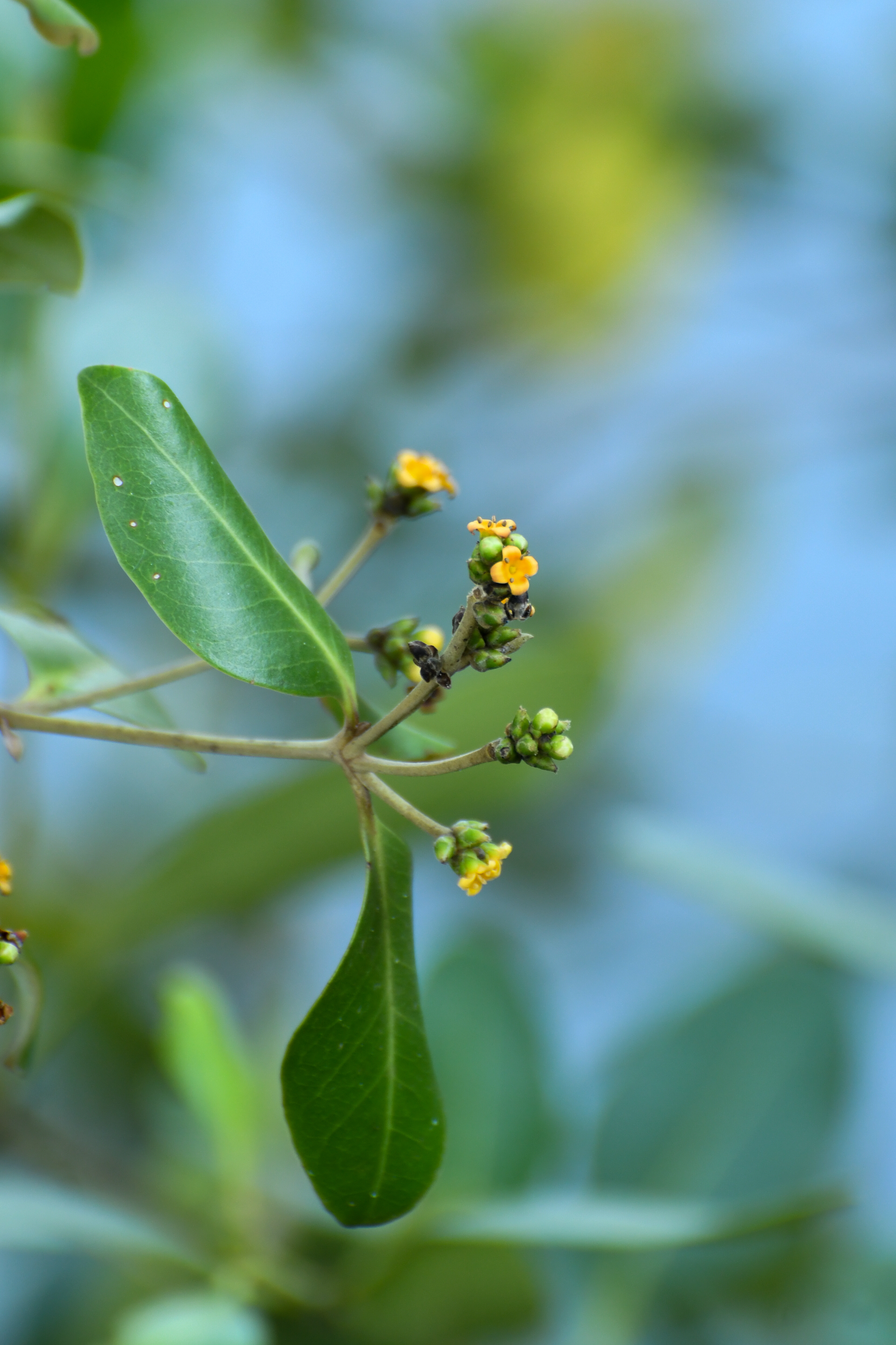 Mangroves